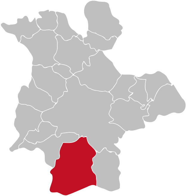 Location of the district Eiserfeld within Siegen, Germany. Red/Grey colors match the color scheme of Germany maps and information boxes in German Wikipedia. District is highlighted in red.